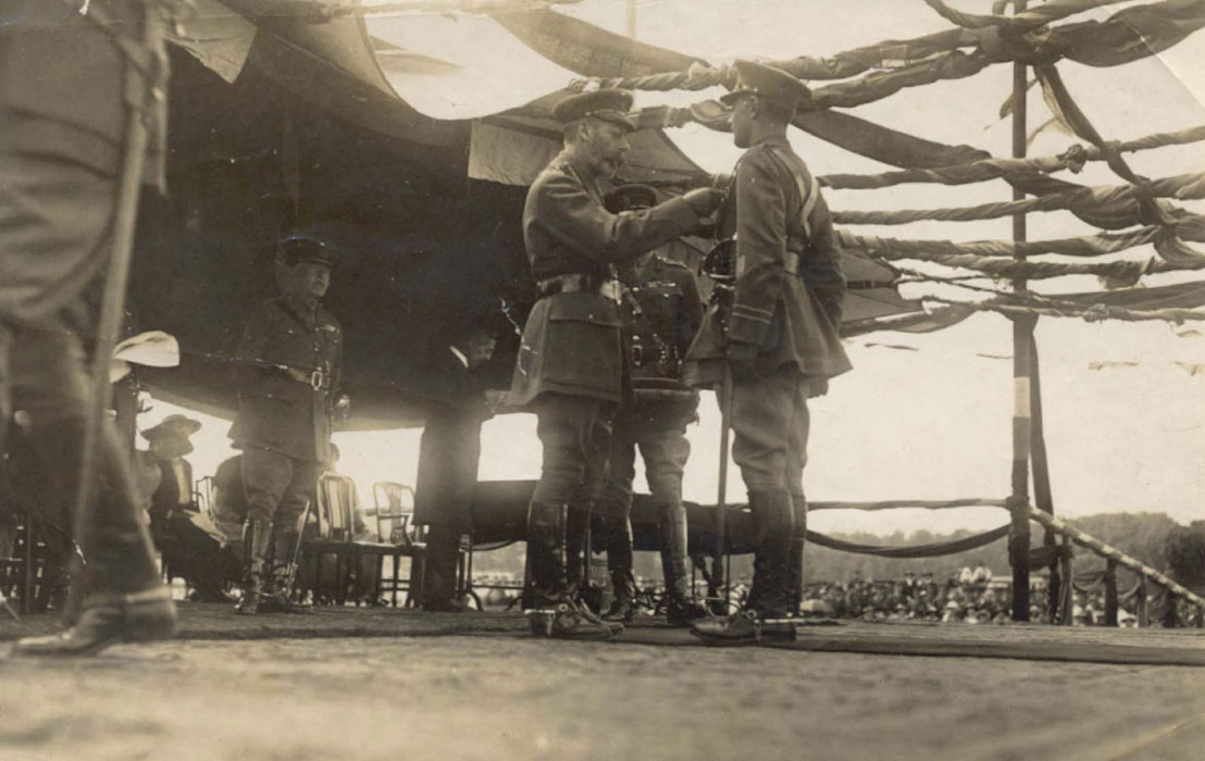 Captain Alfred Maurice Toye receiving his Victoria Cross from King George V in 1918. Toye was one of only two people born in Aldershot to win the VC during the First World War. On 25th March 1918 he demonstrated outstanding gallantry at Eterpigny Ridge to maintain a position which otherwise would have been lost. He later rose to the rank of Brigadier.